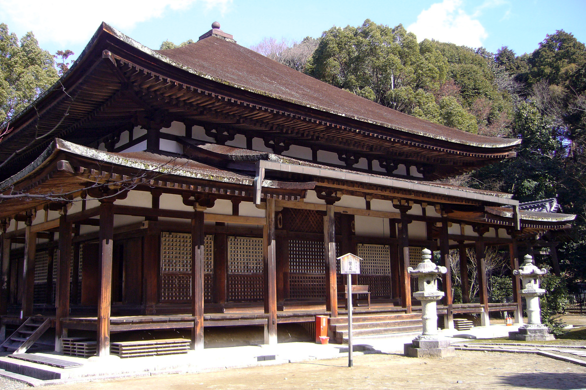 Hōkai-ji's Amida Hall is a Japan's National Treasure in Kyoto, Kyoto prefecture, Japan